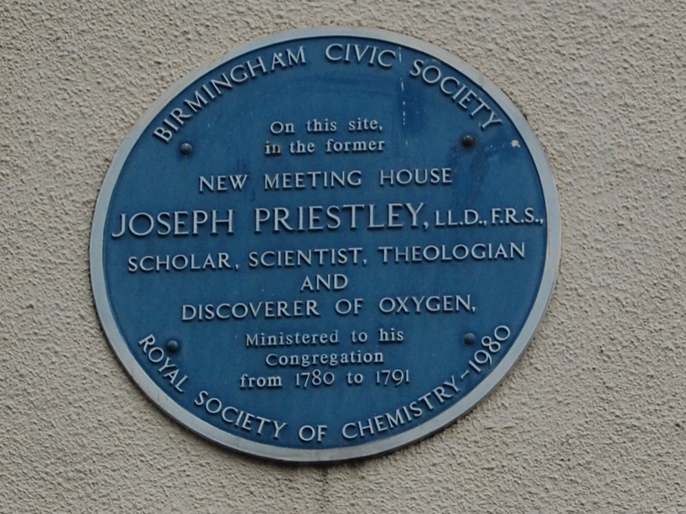 Blue plaque honouring Joseph Priestley, on the side of St Michael's Church, at New Meeting Street, Birmingham, England.